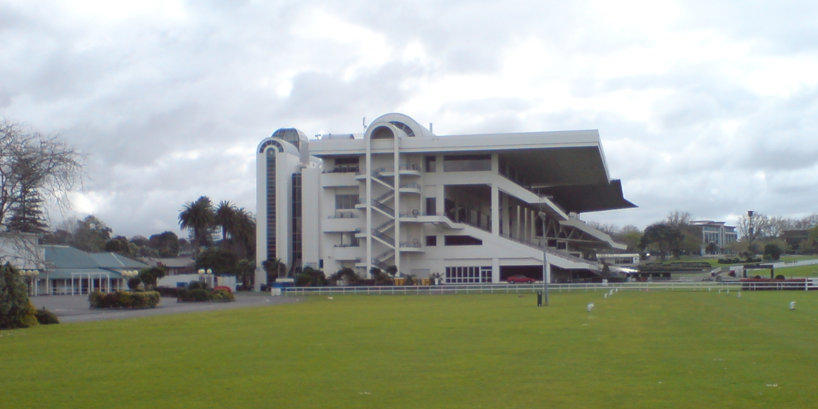 The main stand of the Ellerslie Racecourse in Ellerslie, Auckland City, New Zealand.